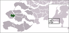 Location of Middelburg